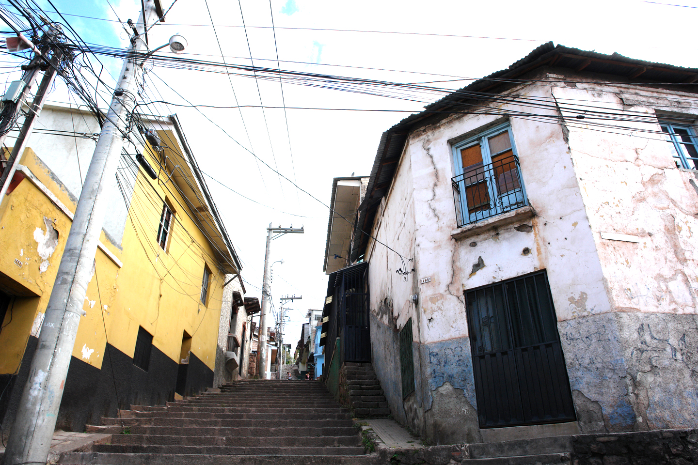 Stairs in La Leona neighbourhood, Tegucigalpa, Honduras